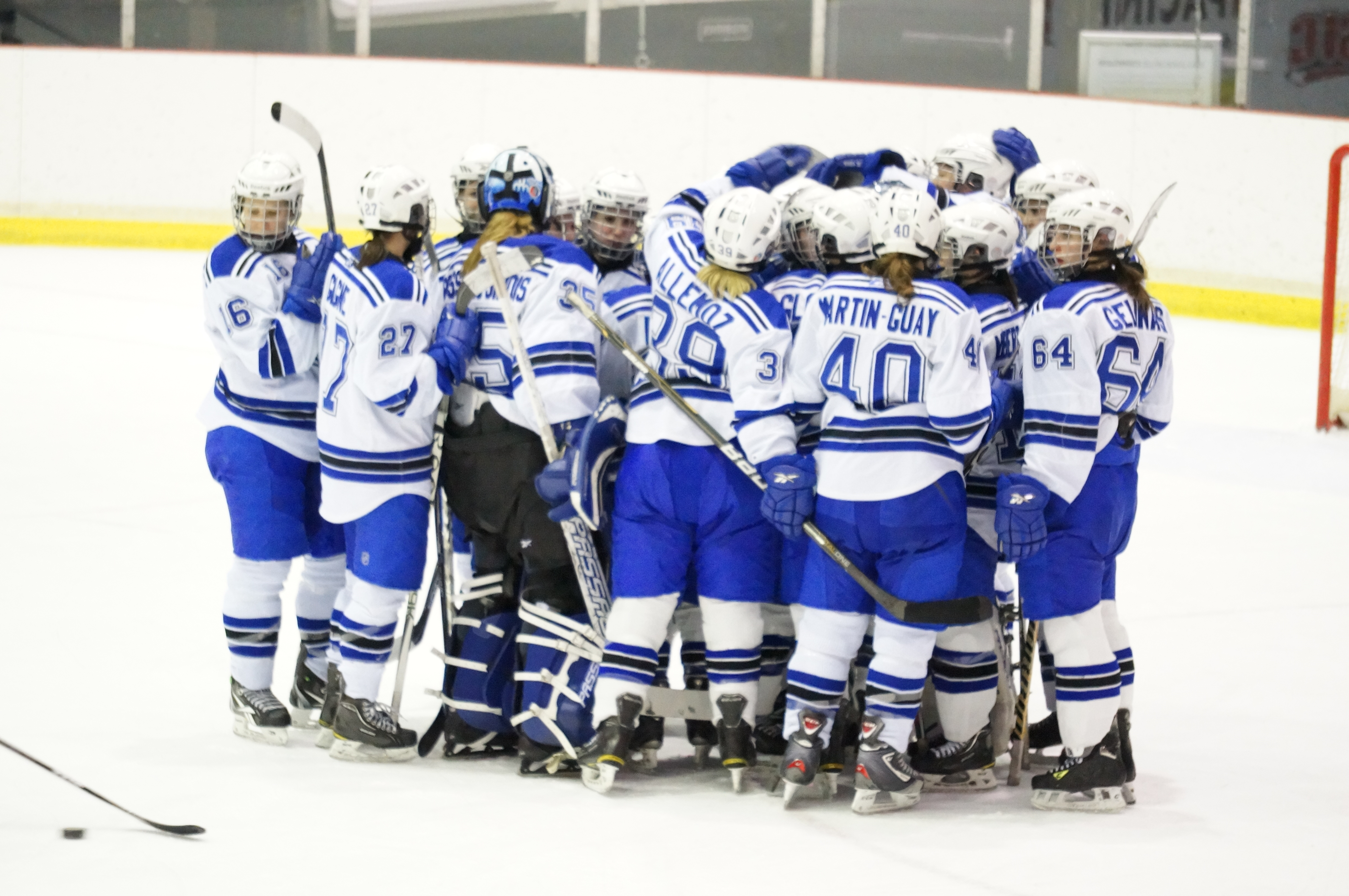 Montreal Carabins